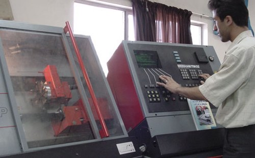 CNC lab of SRTTU